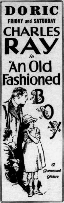 Newspaper advertisement for the American comedy romance film An Old Fashioned Boy (1920) with Charles Ray and child actors Frankie Lee and Gloria Joy, on page 20 of the May 19, 1921 Duluth Herald.